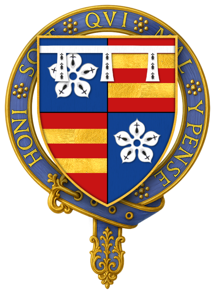 Sir John Astley, KG HOPE, W. H. St. John, The Stall Plates of the Knights of the Order of the Garter 1348 – 1485: A Series of Ninety Full-Sized Coloured Facsimiles with Descriptive Notes and Historical Introductions, Westminster: Archibald Constable and Company LTD, 1901. “ Plate LXIX - Sir John Astley, K.G. 1461-1486… arms, quarterly: 1 and 4, azure a cinquefoil ermine (for Astley); 2 and 3, gules two bars gold (for Harcourt)... ” Lord John's stall plate remains intact within the twenty-fifth stall, on the south side of the chapel.